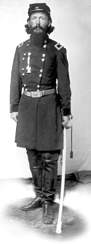 Photo of Brig. Gen. Wm. Haines Lytle week before his death at Chicamaugua during the Civil War.